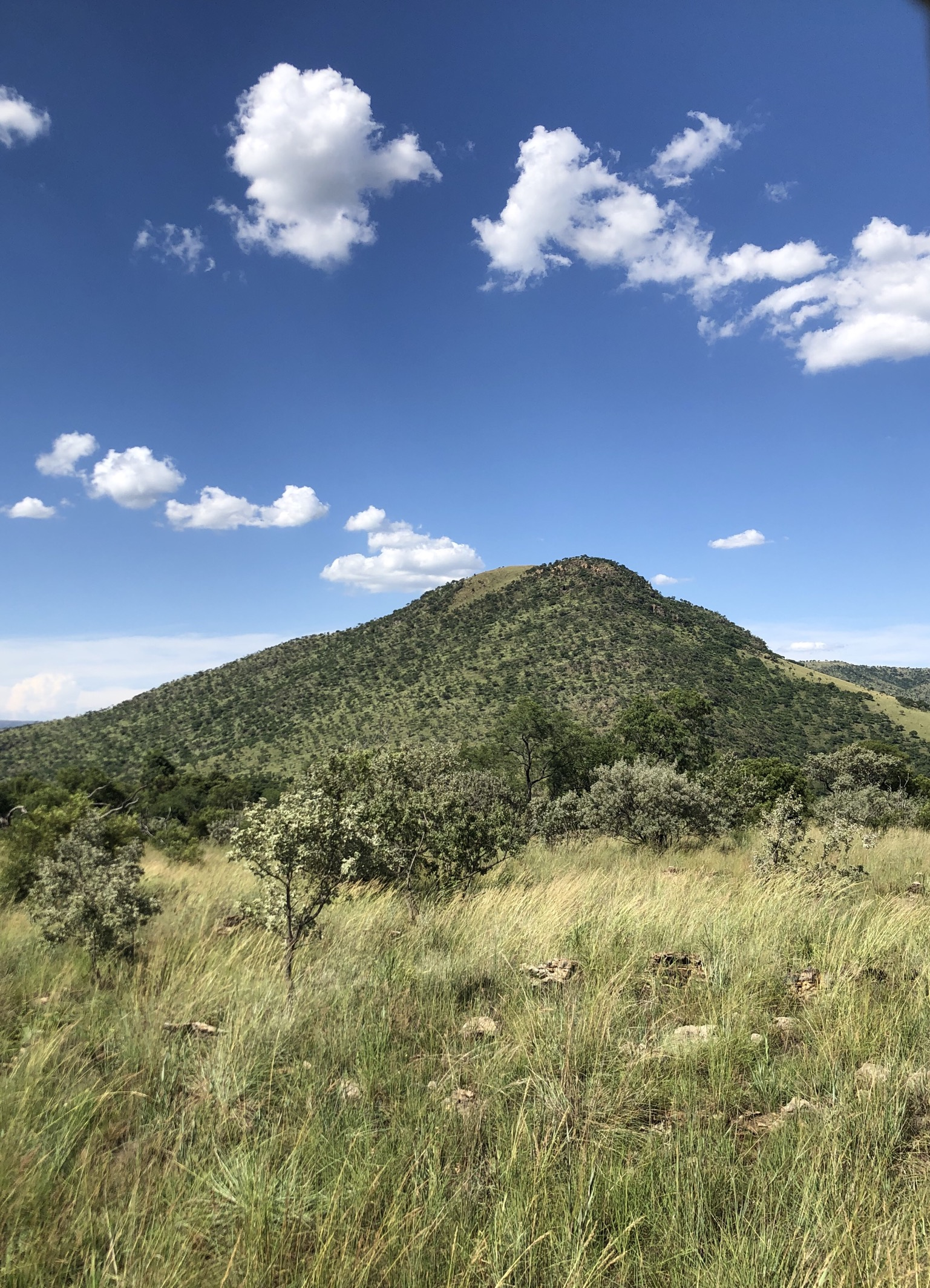 This is an image with the theme "Africa on the Move or Transport" from: South Africa